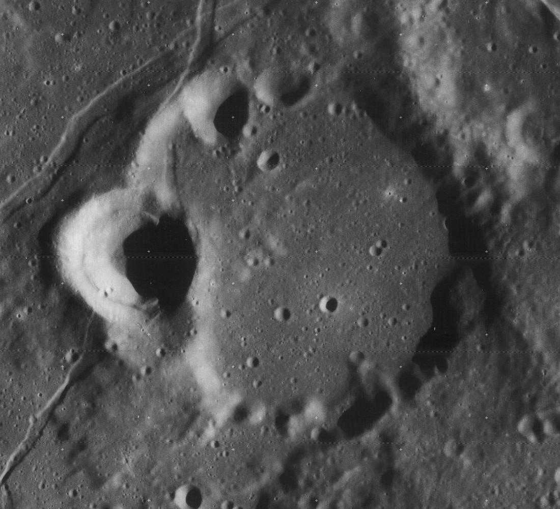 Damoiseau A crater (large crater, center) and D (left of center), southwest of Damoiseau, on the moon.